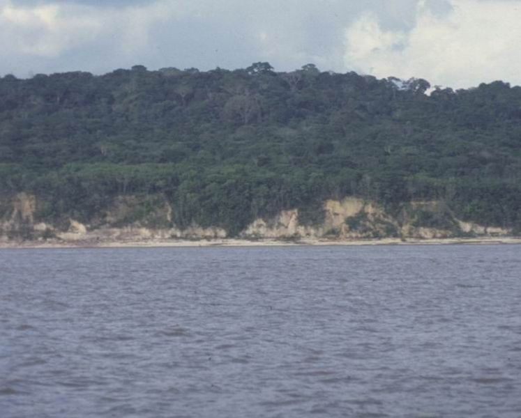 Tocantins River created by he:משתמש:בן הטבע